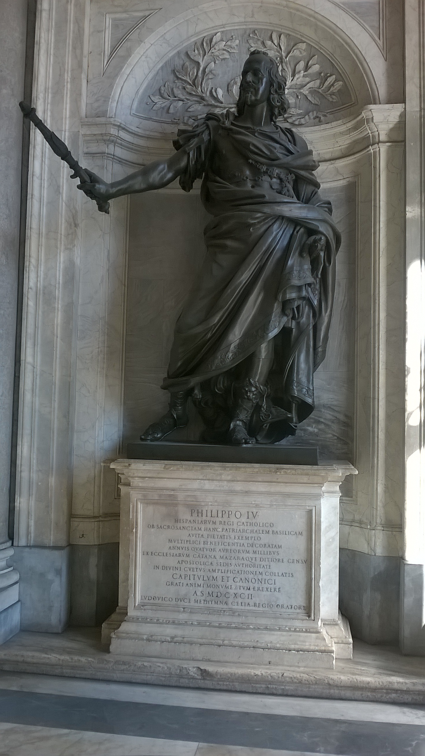 Statue of king Philip IV of Spain at Santa Maria Maggiore Basilica in Rome